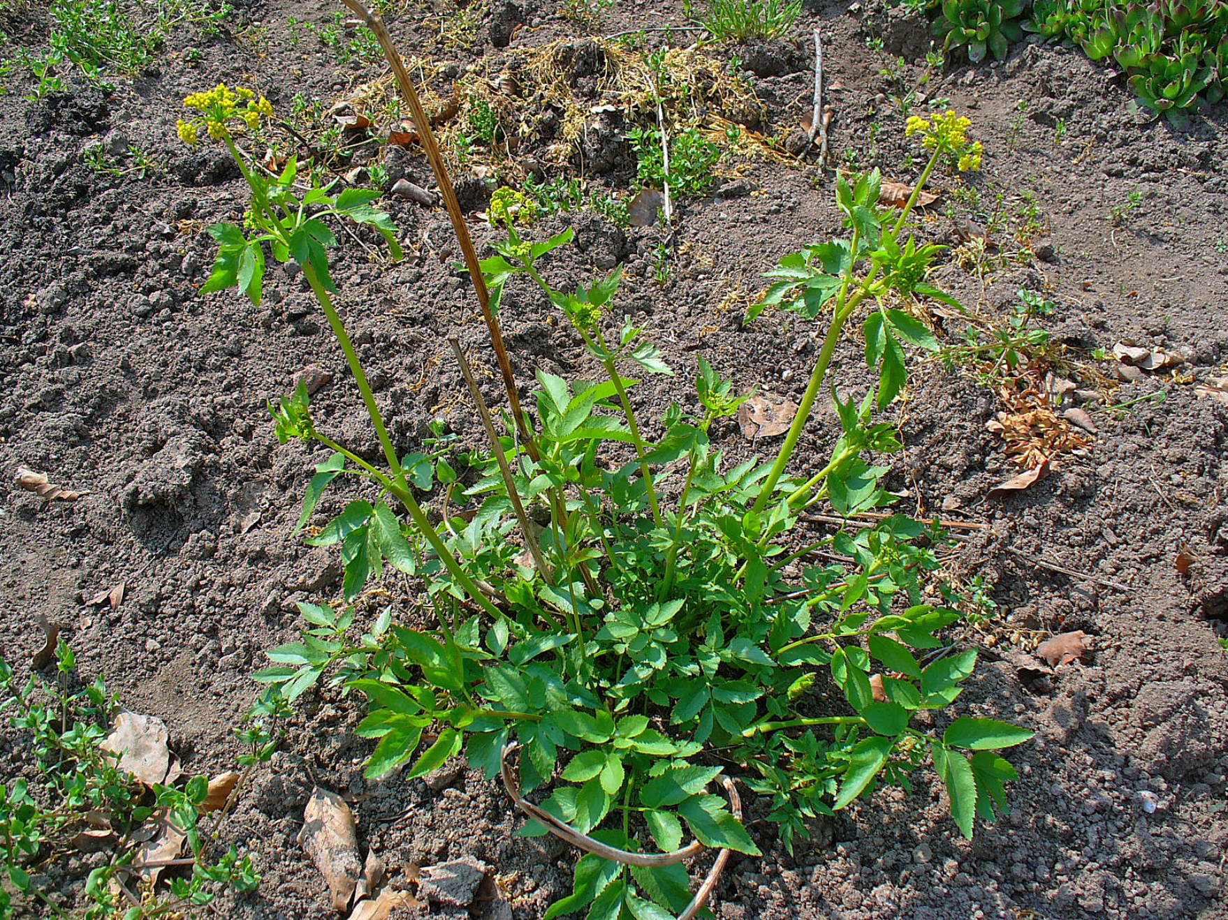 Zizia aurea, Apiaceae, Golden Alexanders, Golden Zizia, habitus.